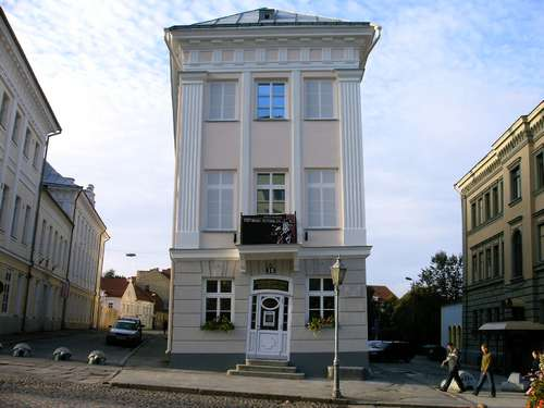 Tartu Town Hall Square - Raekoja Plats